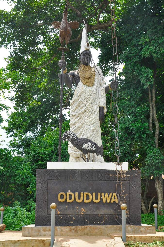 The historical point where Oduduwa, the legendary progenitor of the Yoruba race landed via a chain to found Ile Ife. It is also known as his final resting place.